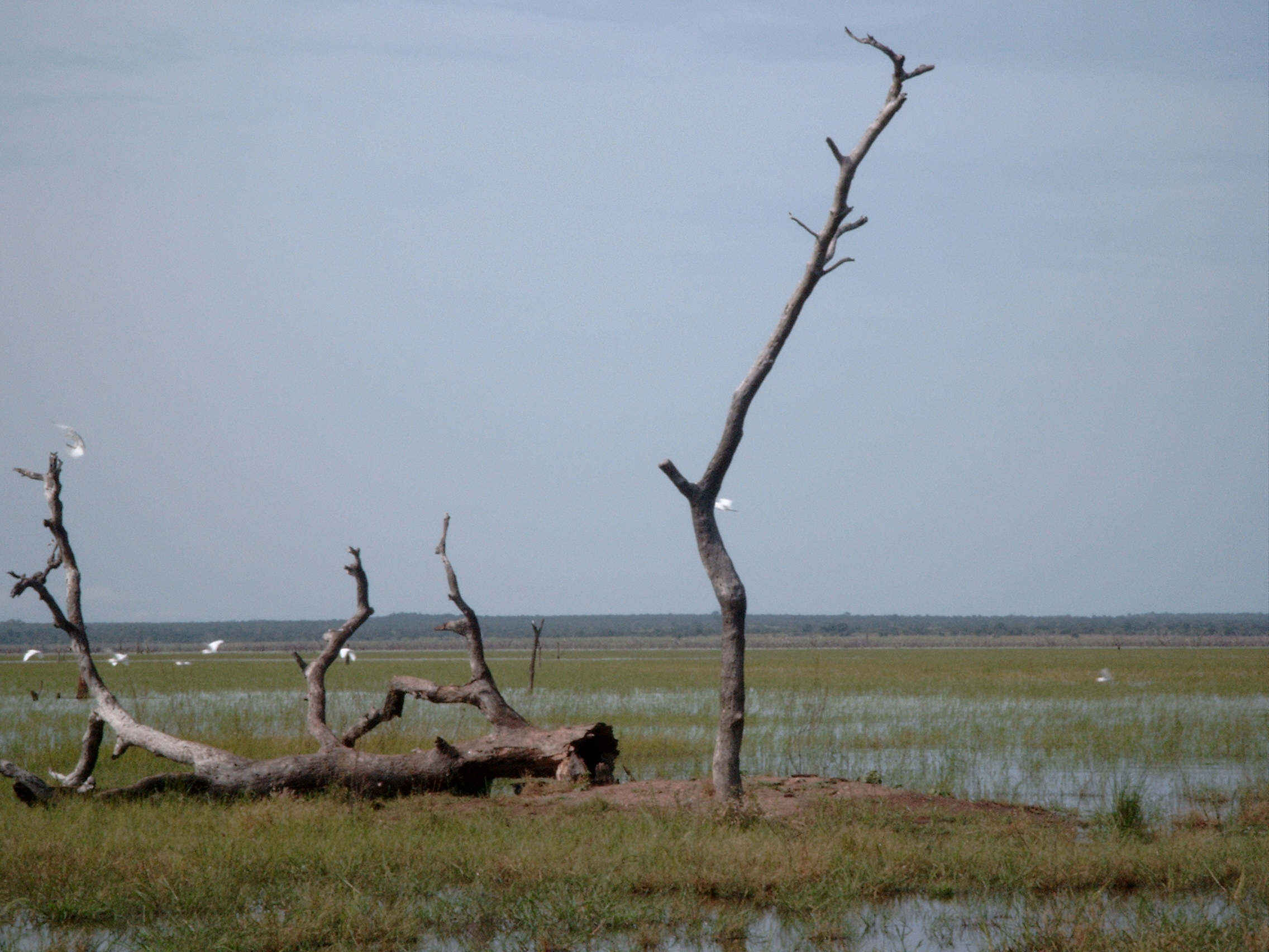 edge of the Kompienga lake, eastern Burkina Faso